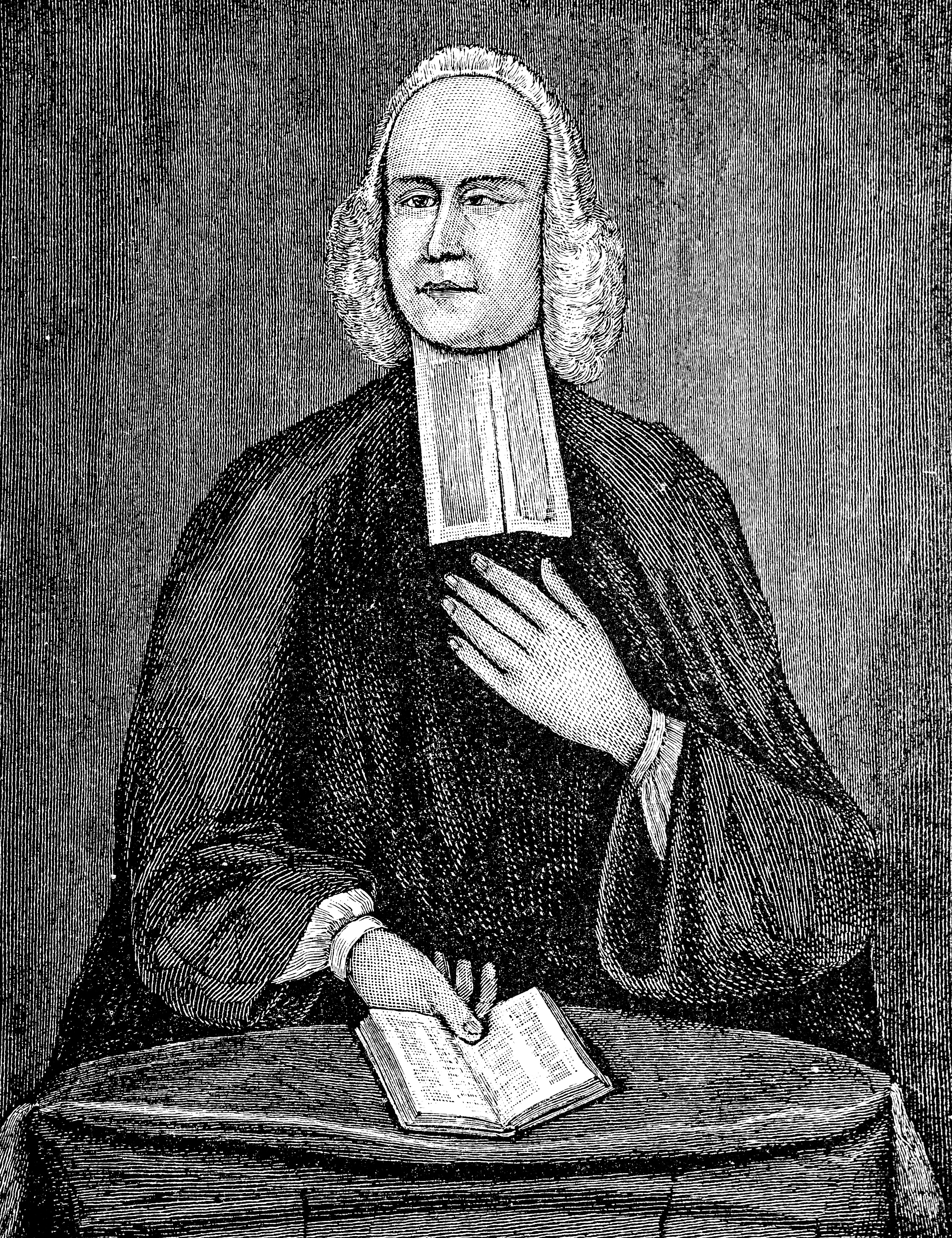 Methodist George Whitefield 1714-1770. Source: The History: American Episcopal Church 1587-1883 by William Stevens Perry, Vol 1 (1885)